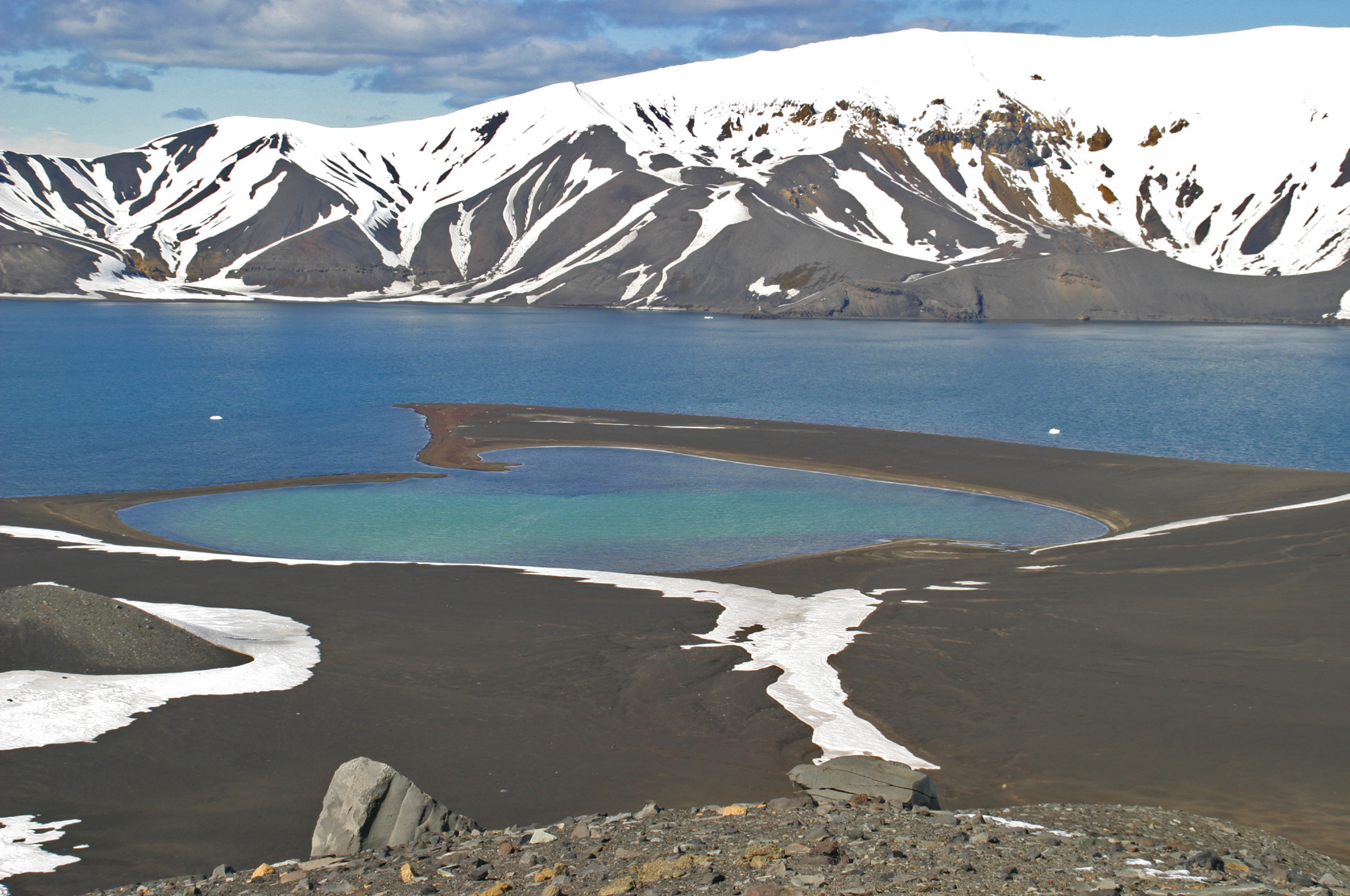 Antarctica - Deception Island: The island is a collapsed volcano and today consists of the annular remnant of a caldera with a diameter of about 14 kilometers. The picture shows the secondary crater created at the last outbreak in 1970.